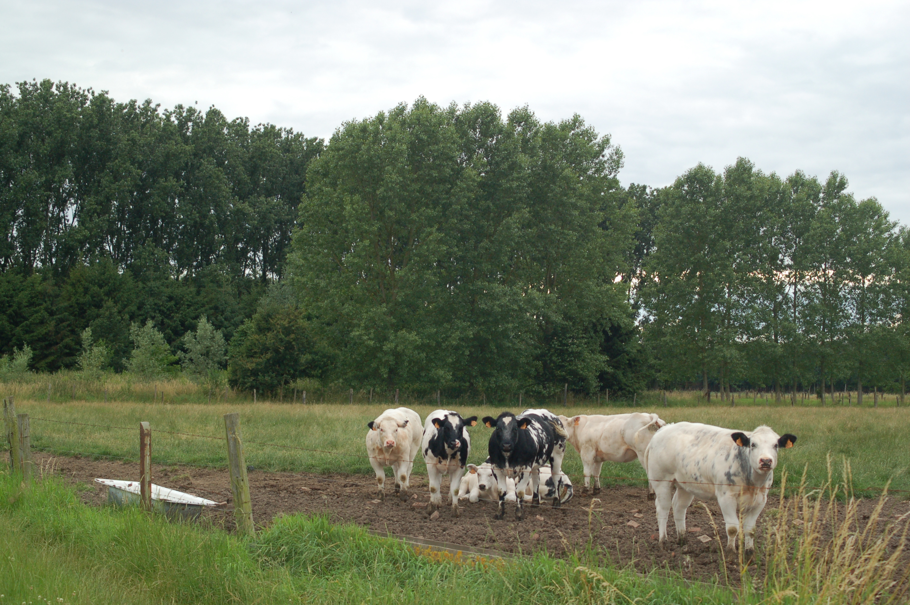 Cows by the Kattemeuterbos in Humbeek